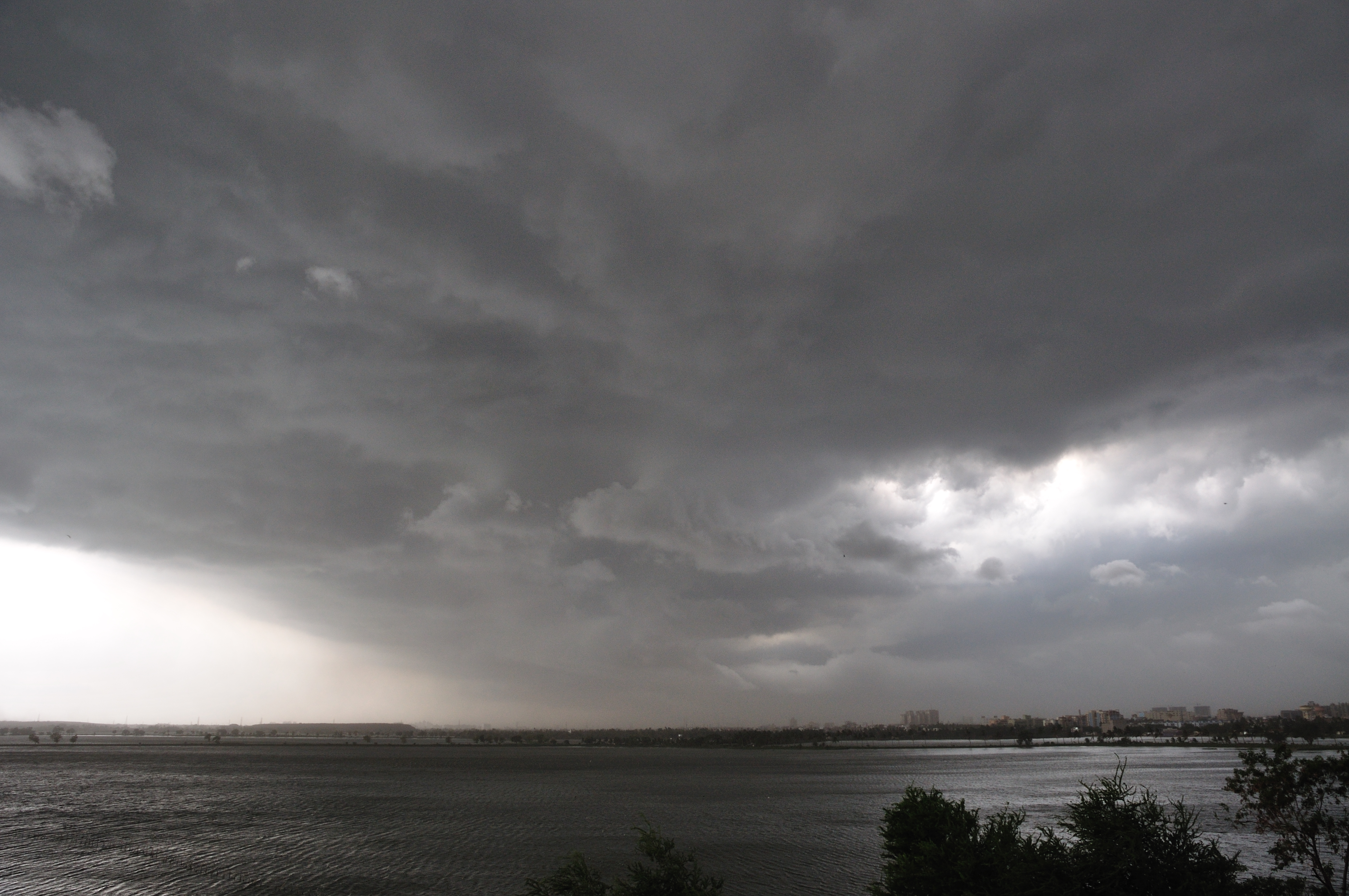 The 24th May, 2010 the second Nor’wester of 2010, hit Kolkata at 60kmph, accompanied by rain, till 5.30pm, the city had received 7.4mm of rain in 24 hours. Kolkata has received far fewer Nor’westers than normal in 2010. The first one came late on 7th May, 2010 accompanied by 31mm of rain in 24 hours.